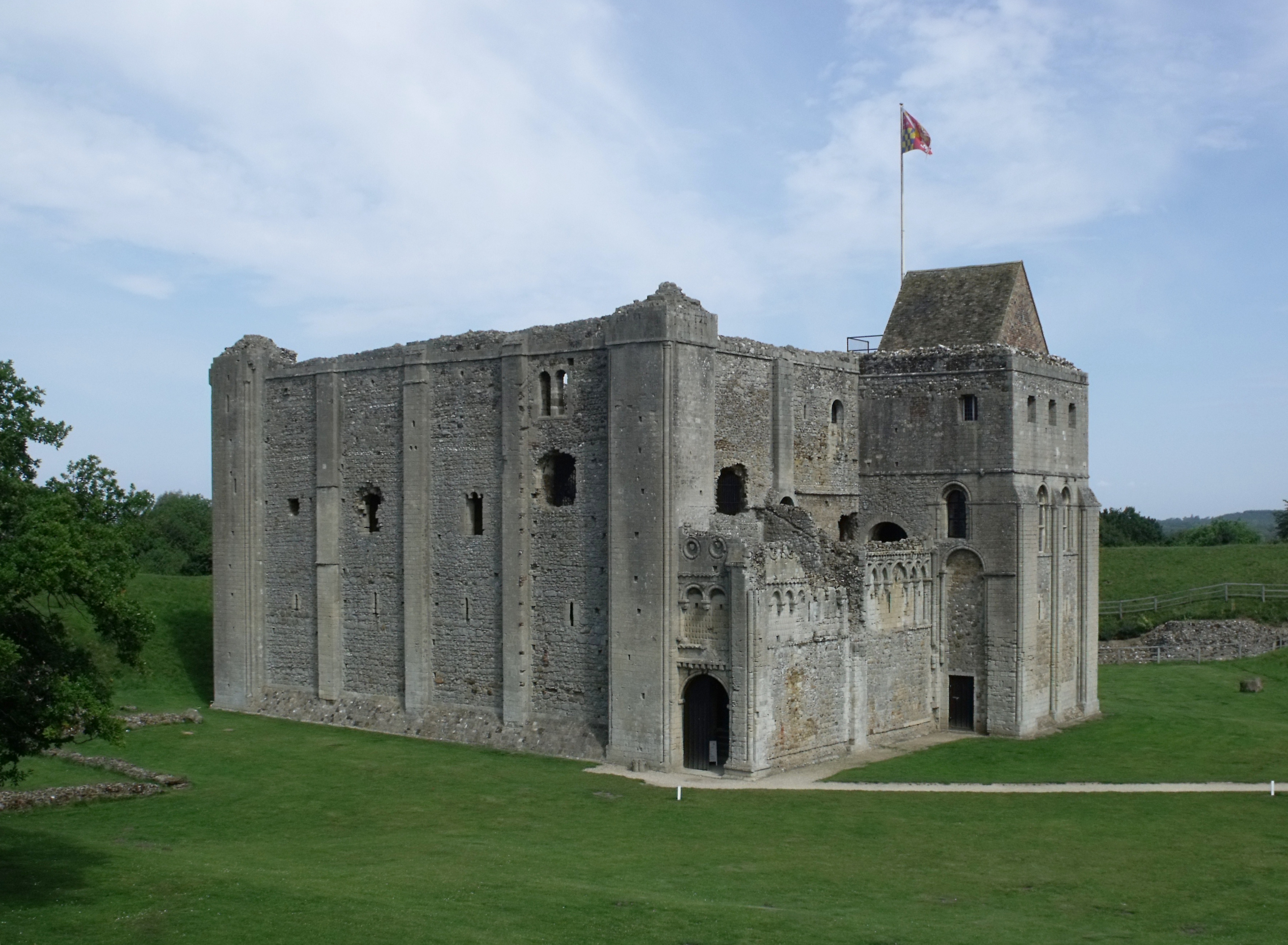 Castle Rising Castle, south-eastern aspect